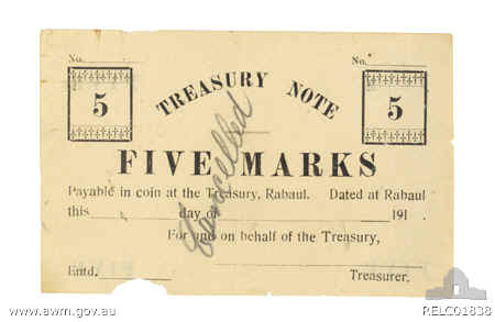 The administration decided to retain the German mark as legal tender during the period of transition' As a result of a currency shortage, had these treasury notes printed. The decision to not only retain the foreign currency, but to issue Australian banknotes in German marks was met with outrage at home. Only a small number were released into circulation and each valid note was hand-signed and dated. They were recalled early in January 1915, less than five months after they were first printed.